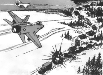 F-16s attacking tanks with hypervelocity missiles. Artist's concept